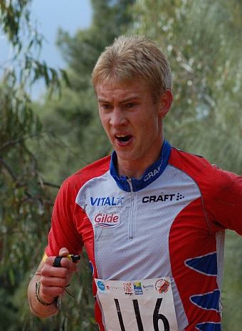 Olav Lundanes (JWOC2007 sprint)